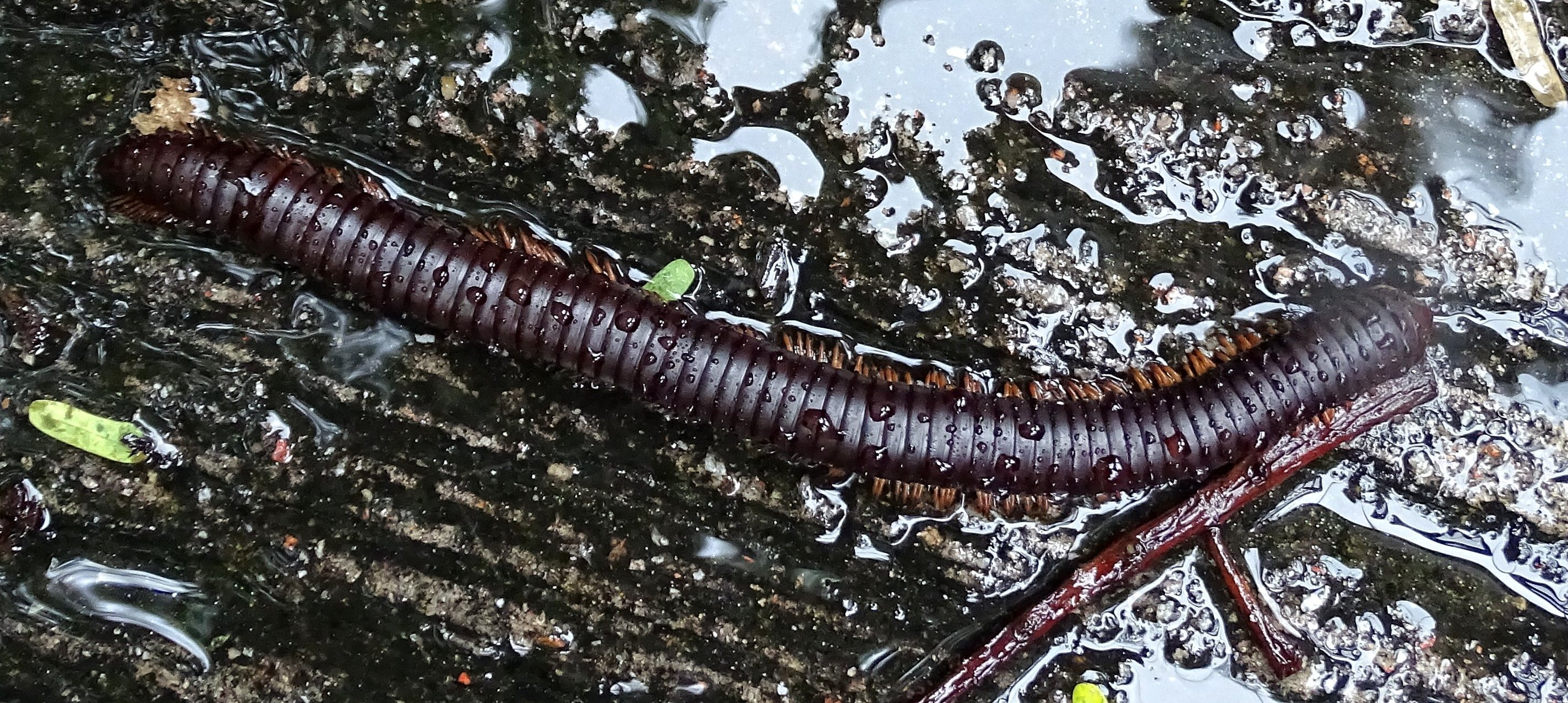 A Seychelles giant millipede (Seychelleptus seychellarum) seen on La Digue, Seychelles.